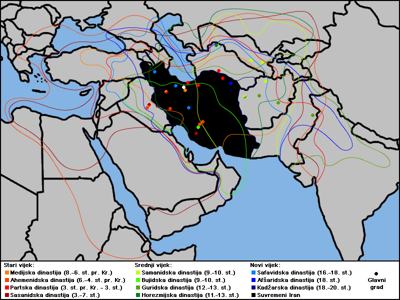 Iran's historical extends and capitals with Croatian description